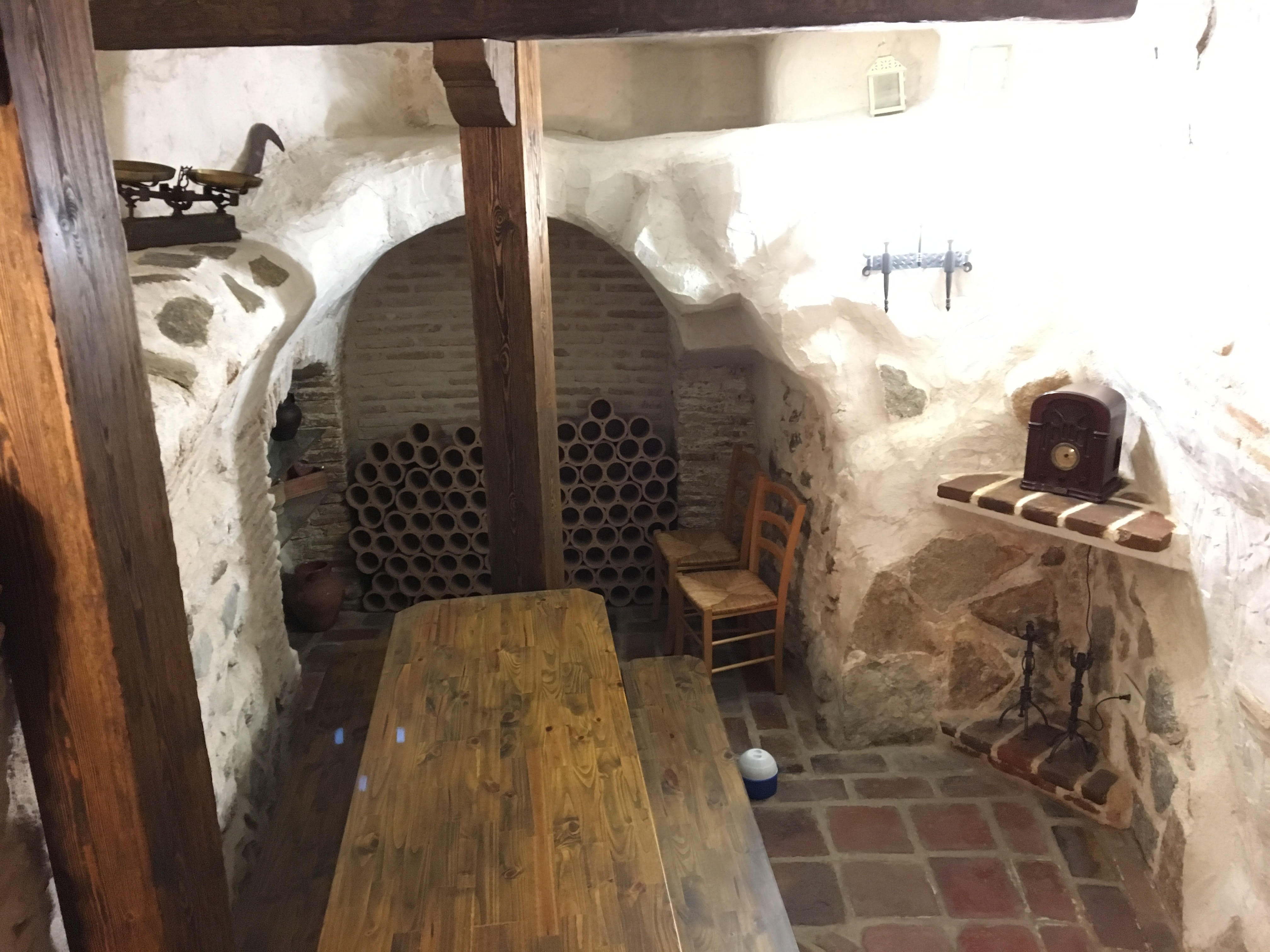 A cave in the basement of a typical house in the Covachuelas neighborhood in Toledo.